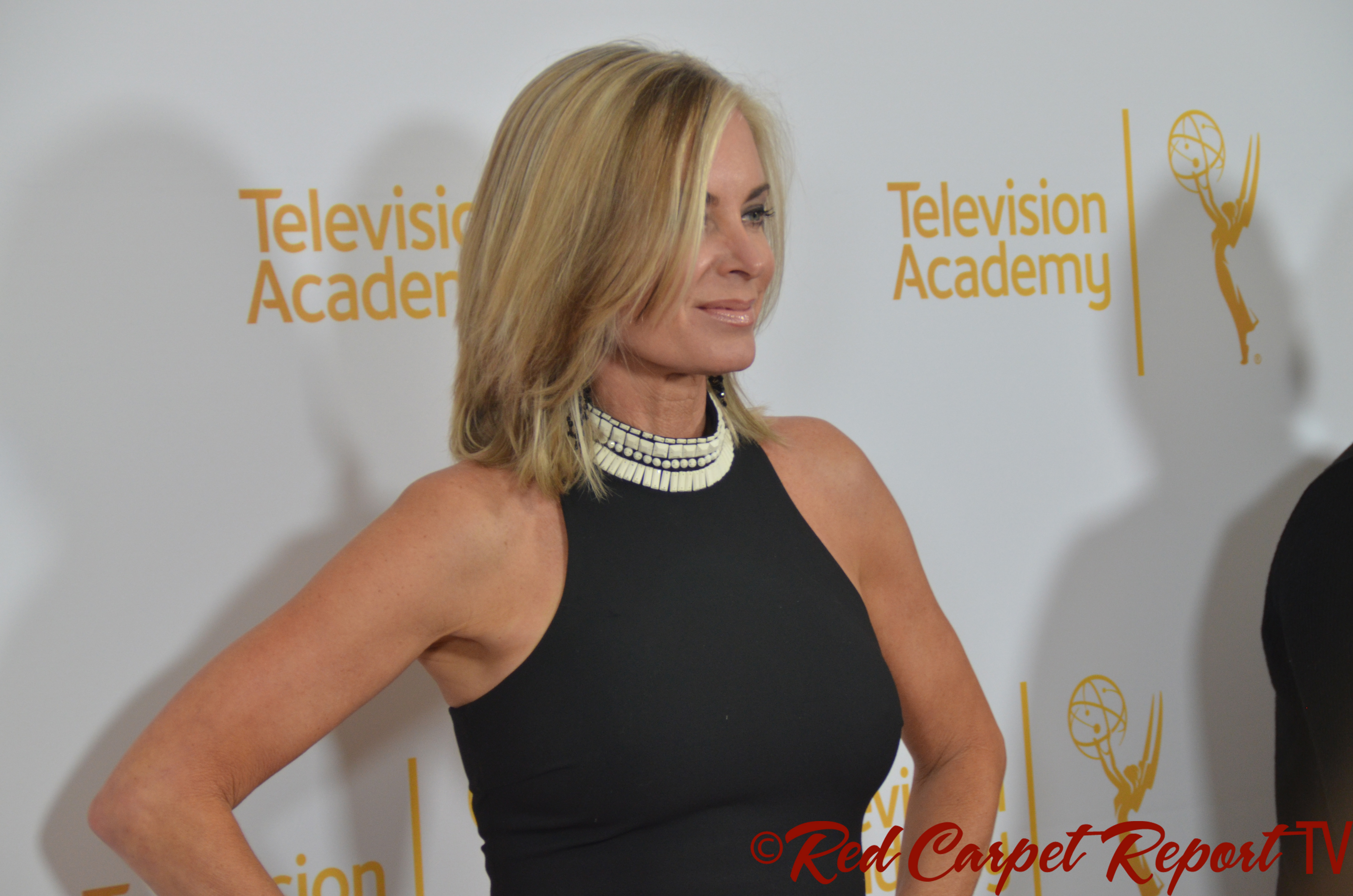 Eileen Davidson Mingle Media TV and Red Carpet Report host Ashley Harrington were invited to cover the 2014 Daytime Emmy® Awards Nominees Cocktail Reception Hosted by the Television Academy’s Daytime Programming Peer Group Governors at the London West Hotel in Hollywood.